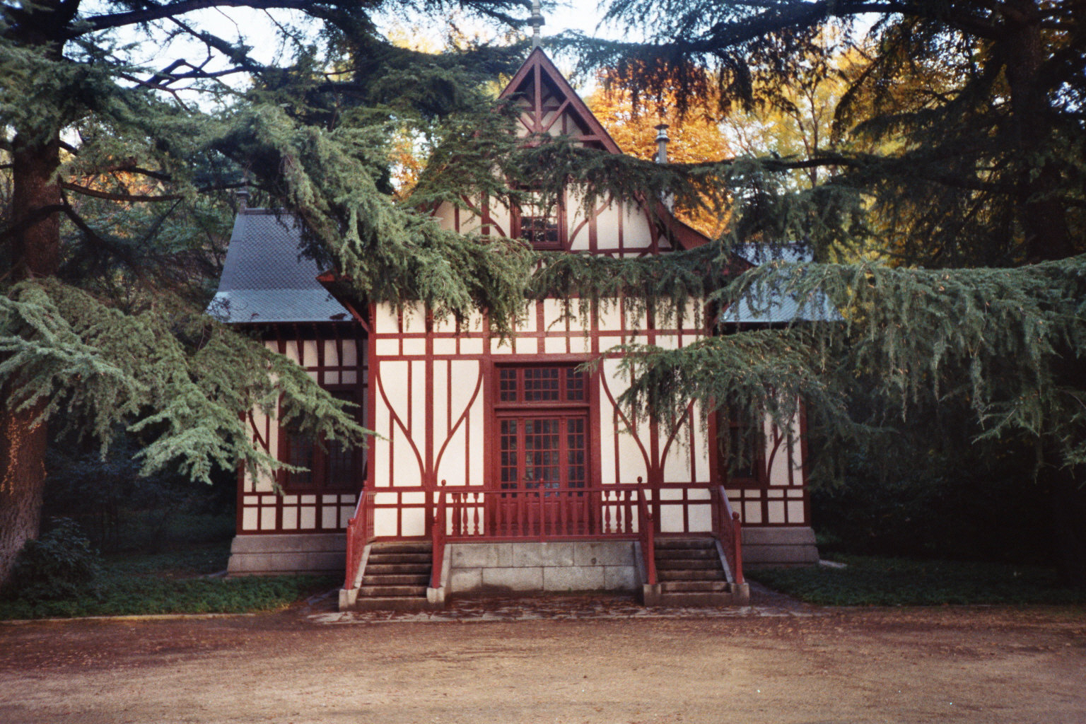 Description: Little house in the Campo del Moro, close to the Palacio Real de Madrid. Source: self-made, I release it into the public domain.